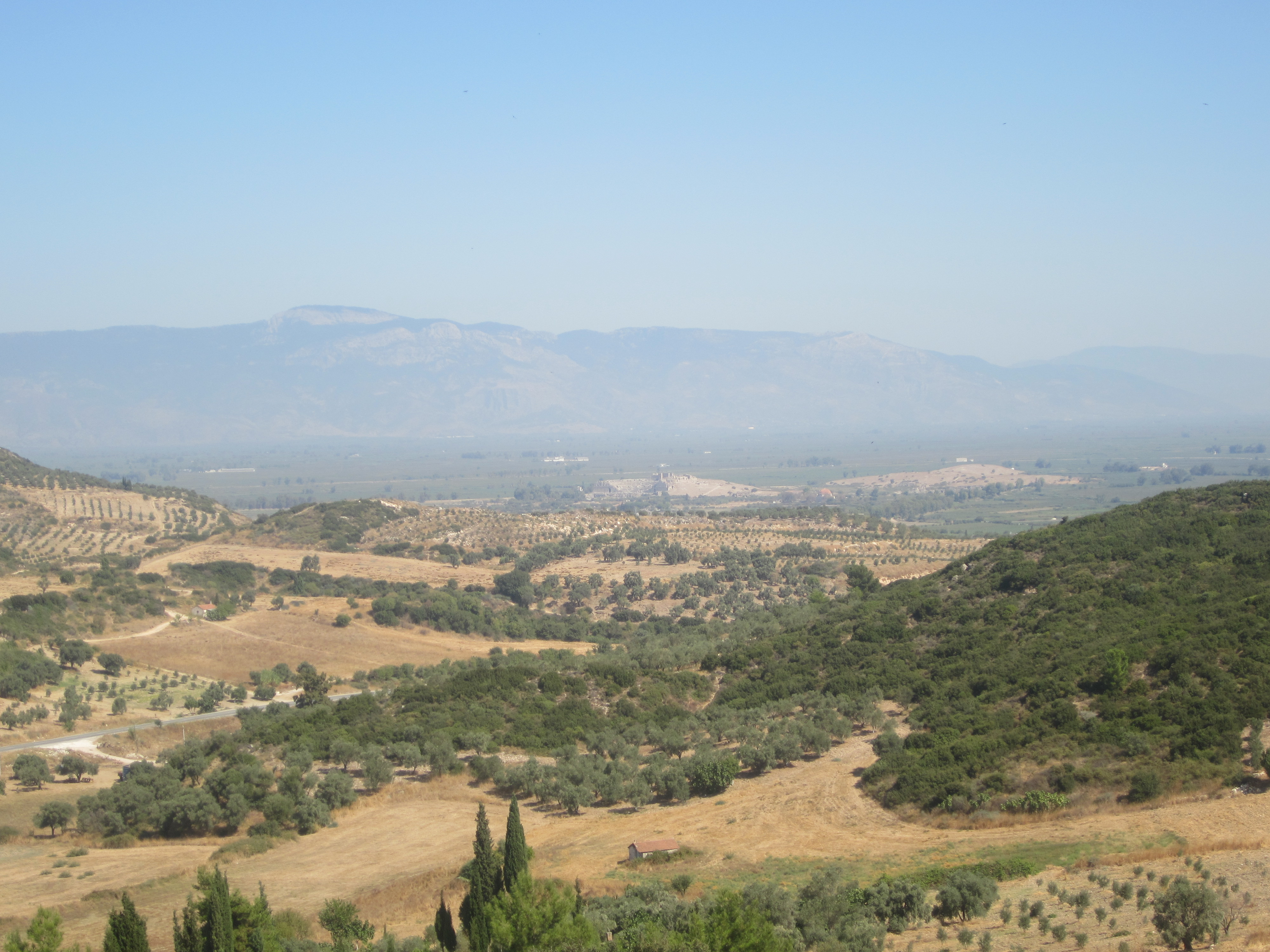 Archaeological area of Miletus seen from German excavation house.